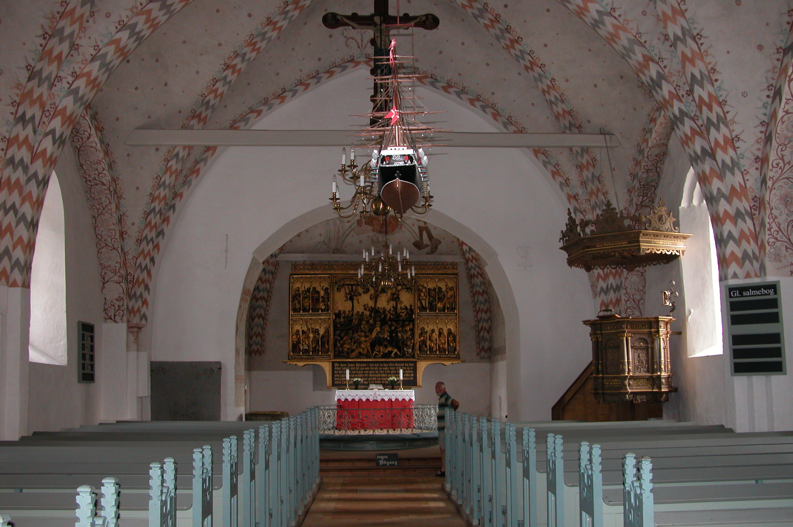 Interior of Bregninge Kirke, Ærø island, Denmark